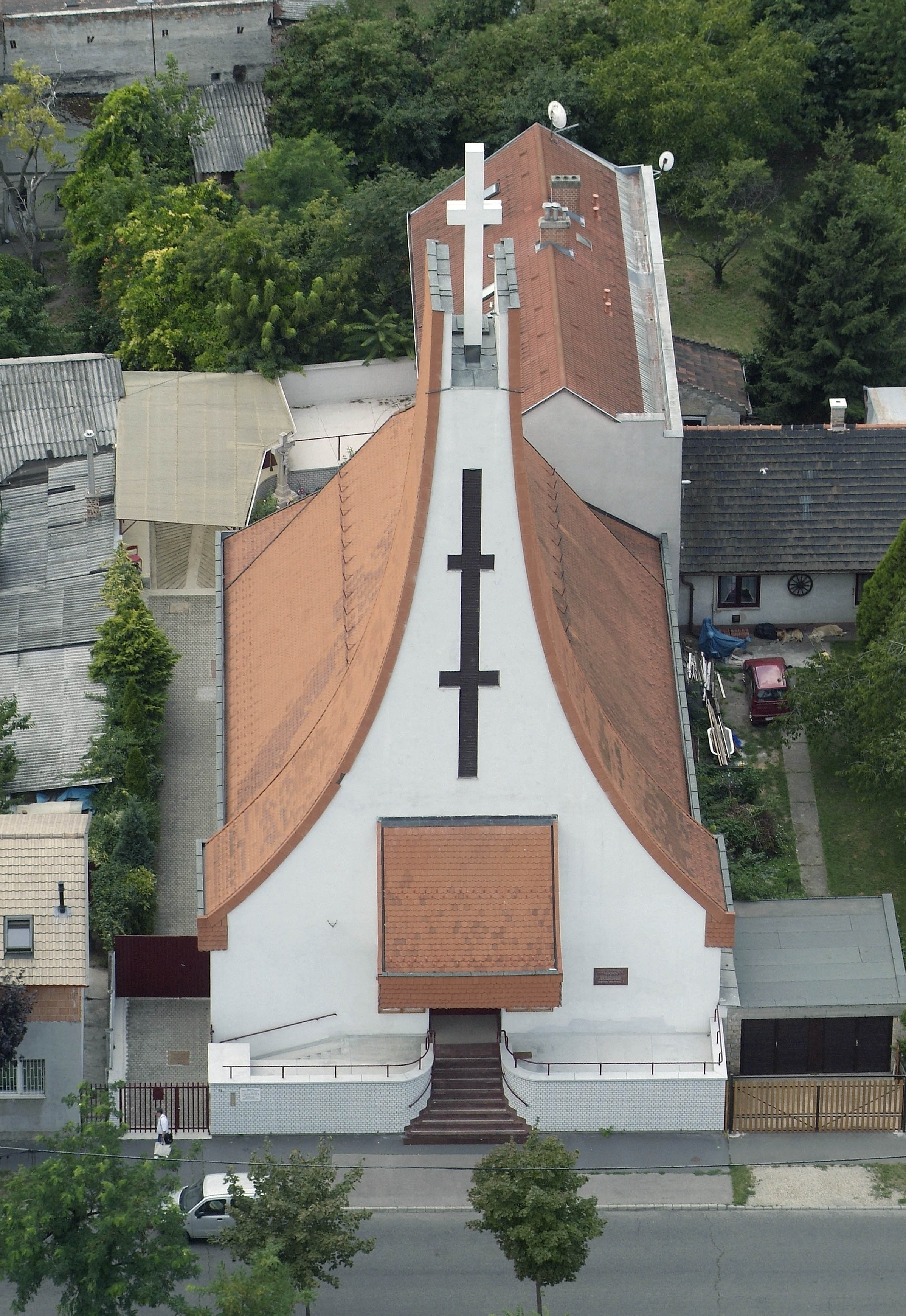 X. District Budapest, Hungary, aerial photography